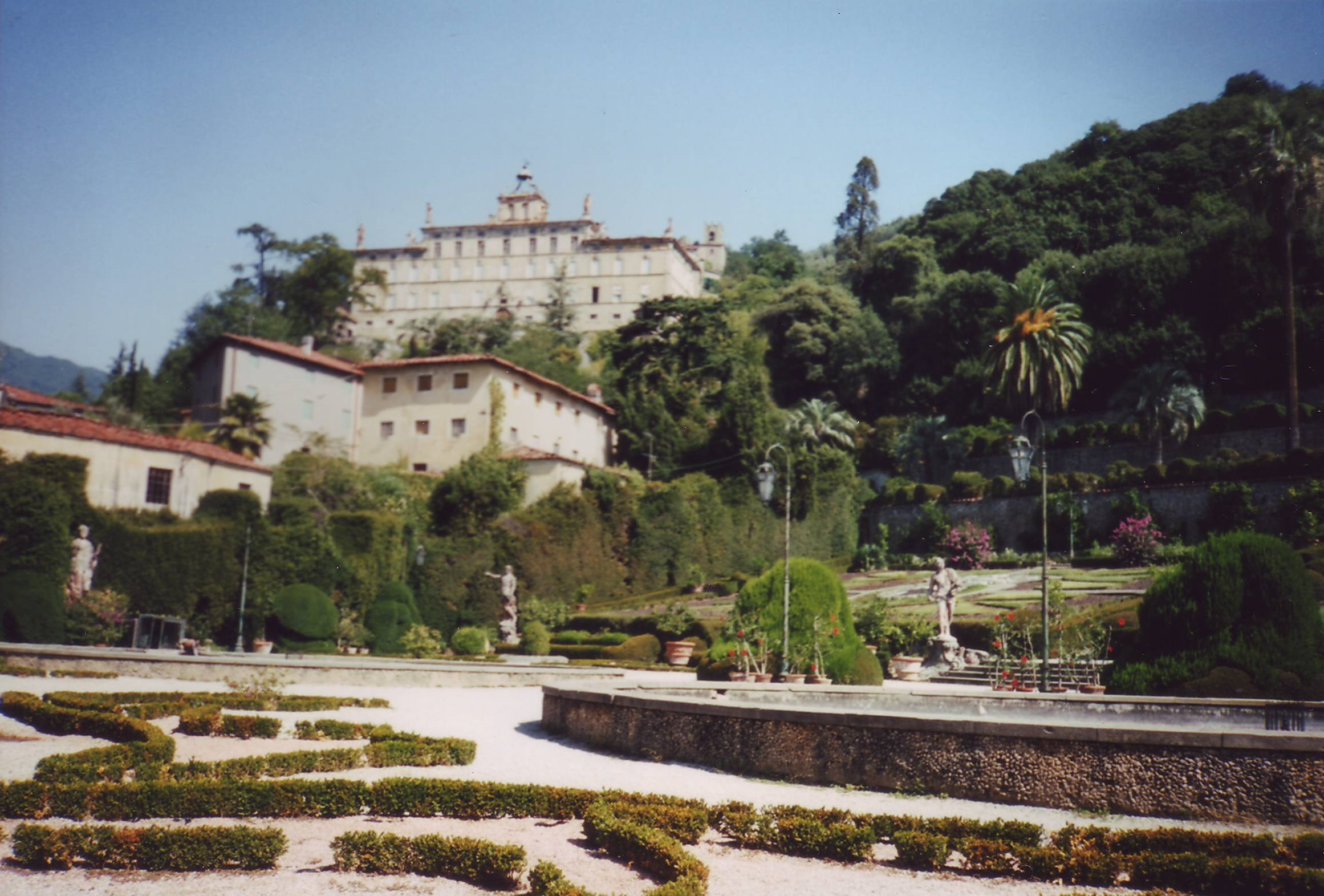 Villa Garzoni